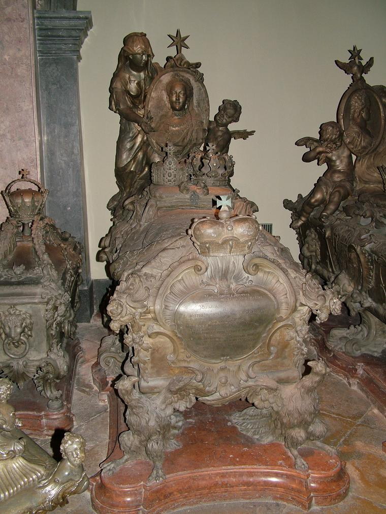 Austria, Vienna, Capuchin Church, Imperial Crypt